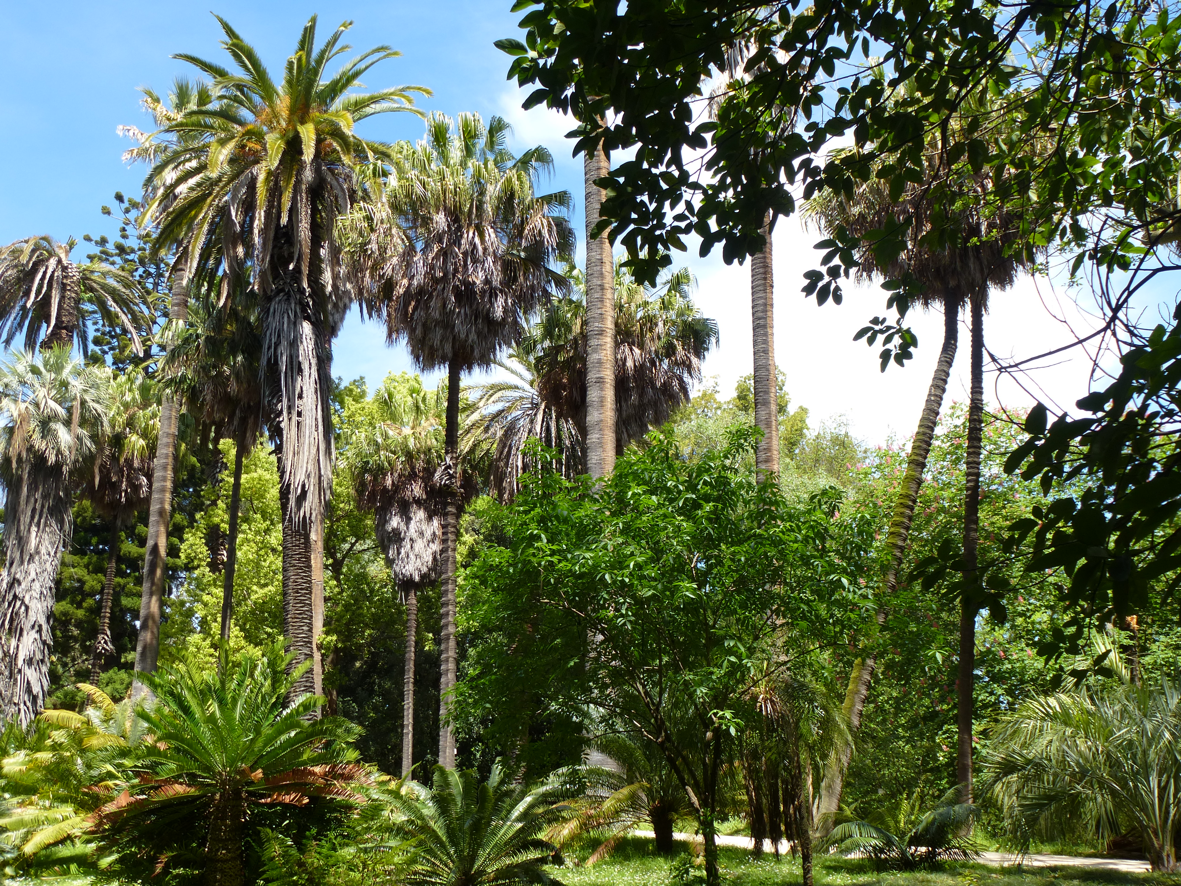 Into the Botanical Garden of Lisbon (Jardim Botânico de Lisboa). Portugal.